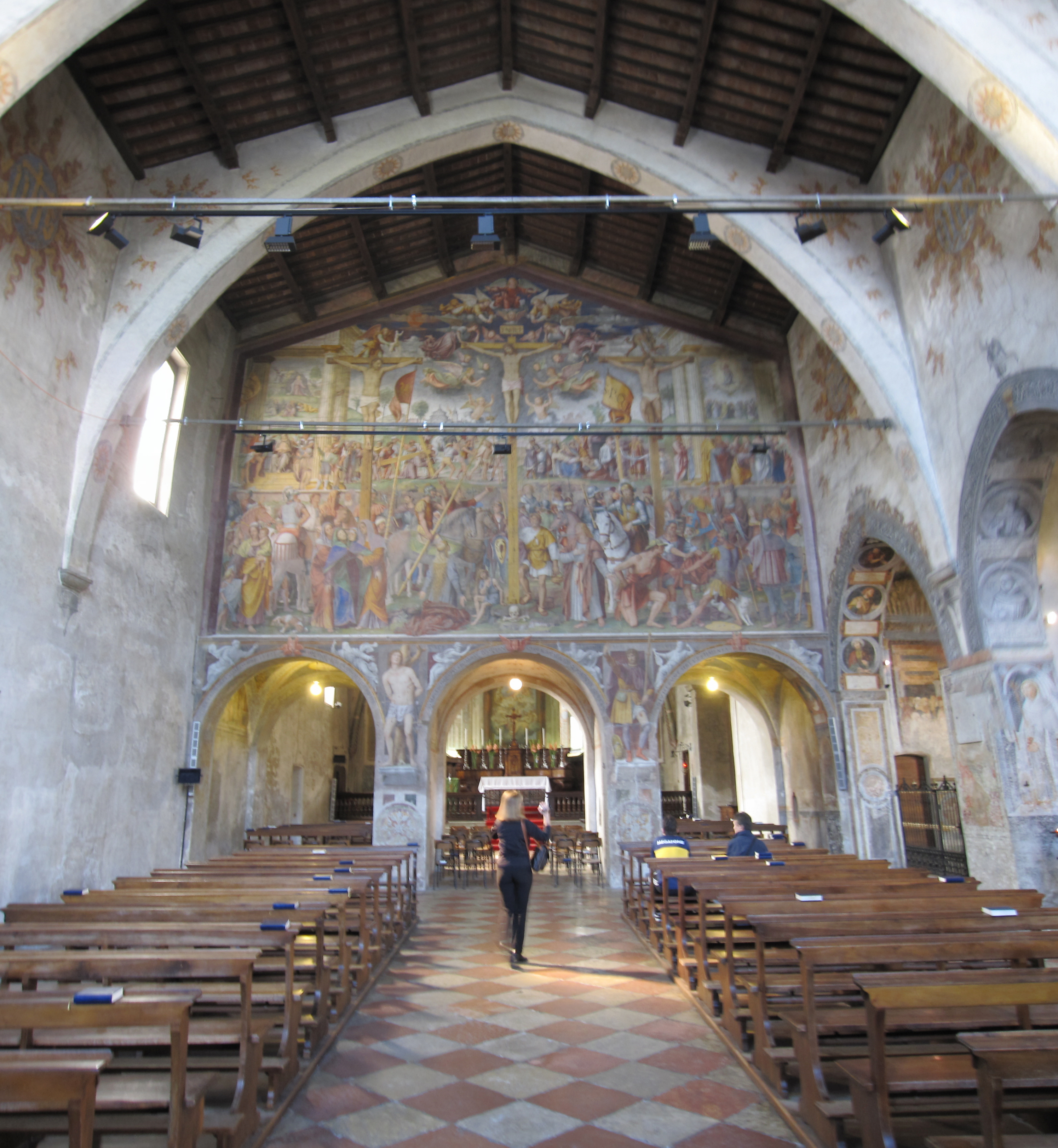 Church of Santa Maria degli Angeli in Lugano. Panoramic view